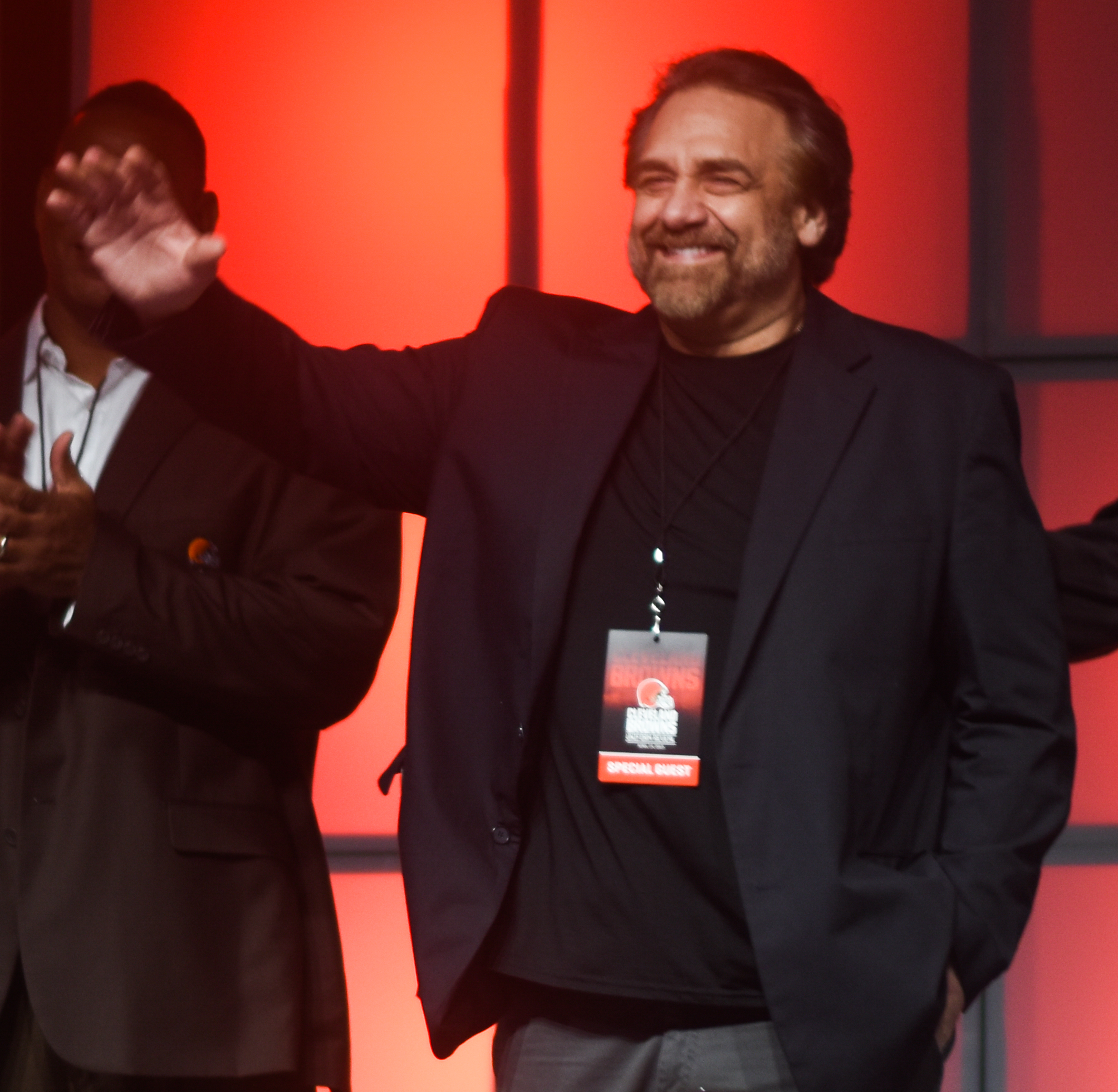 Cleveland Browns New Uniform Unveiling